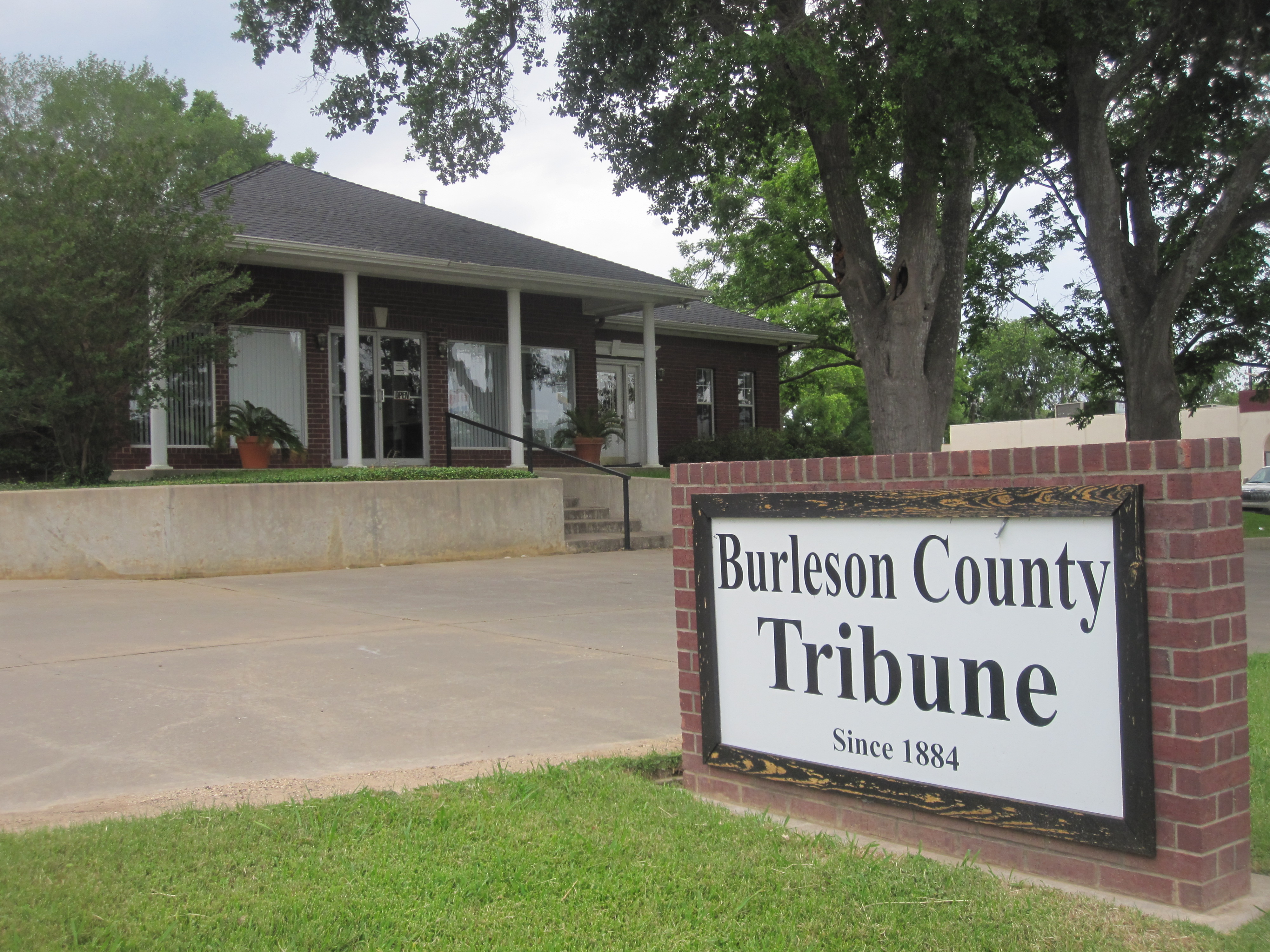 I took photo with Canon camera.